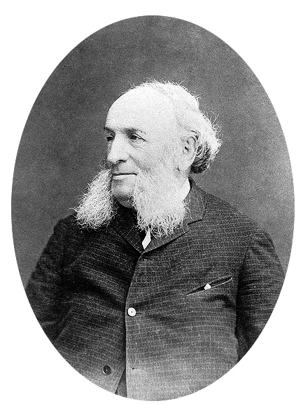 Ivan Aivazovsky, 1870 photograph, ITAR-TASS archives